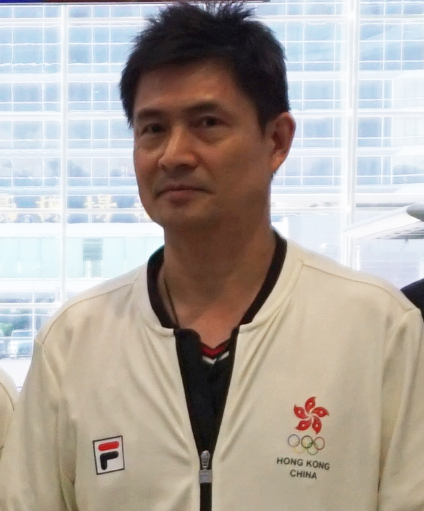 Liu Zhi-heng, Hong Kong.